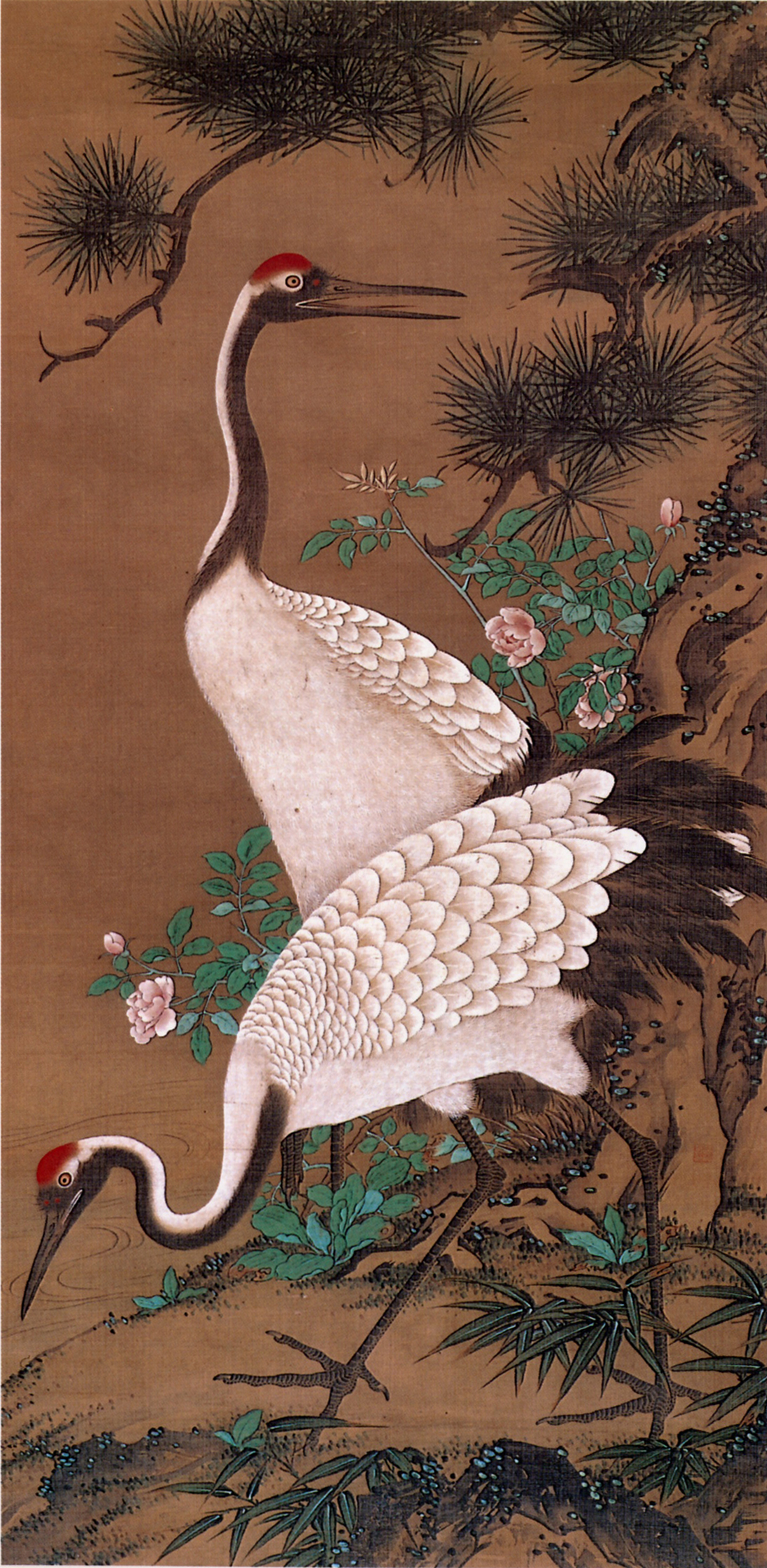 Cranes,Watanabe Shuseki,Hanging scroll,color on silk